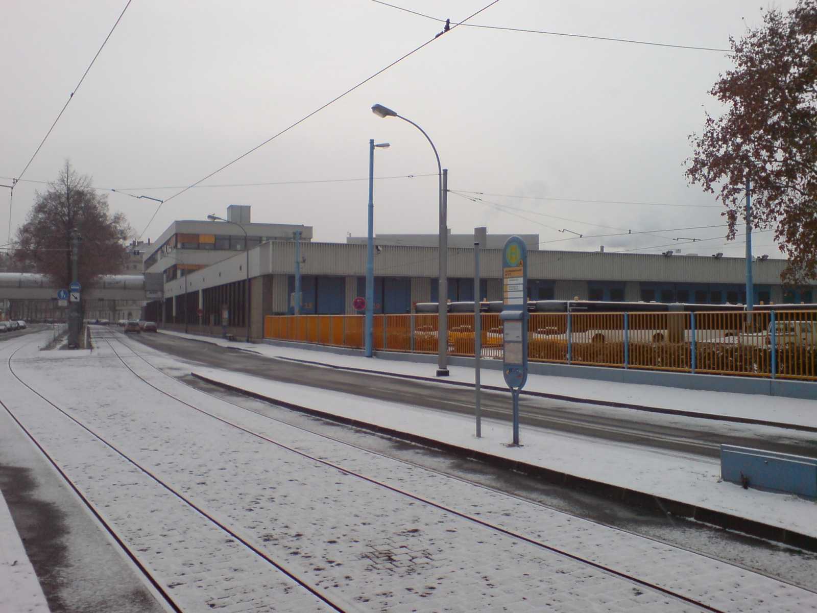 A public bus / tram depot in Mainz Germany. Looking roughly west along Kaiser-Karl-Ring.